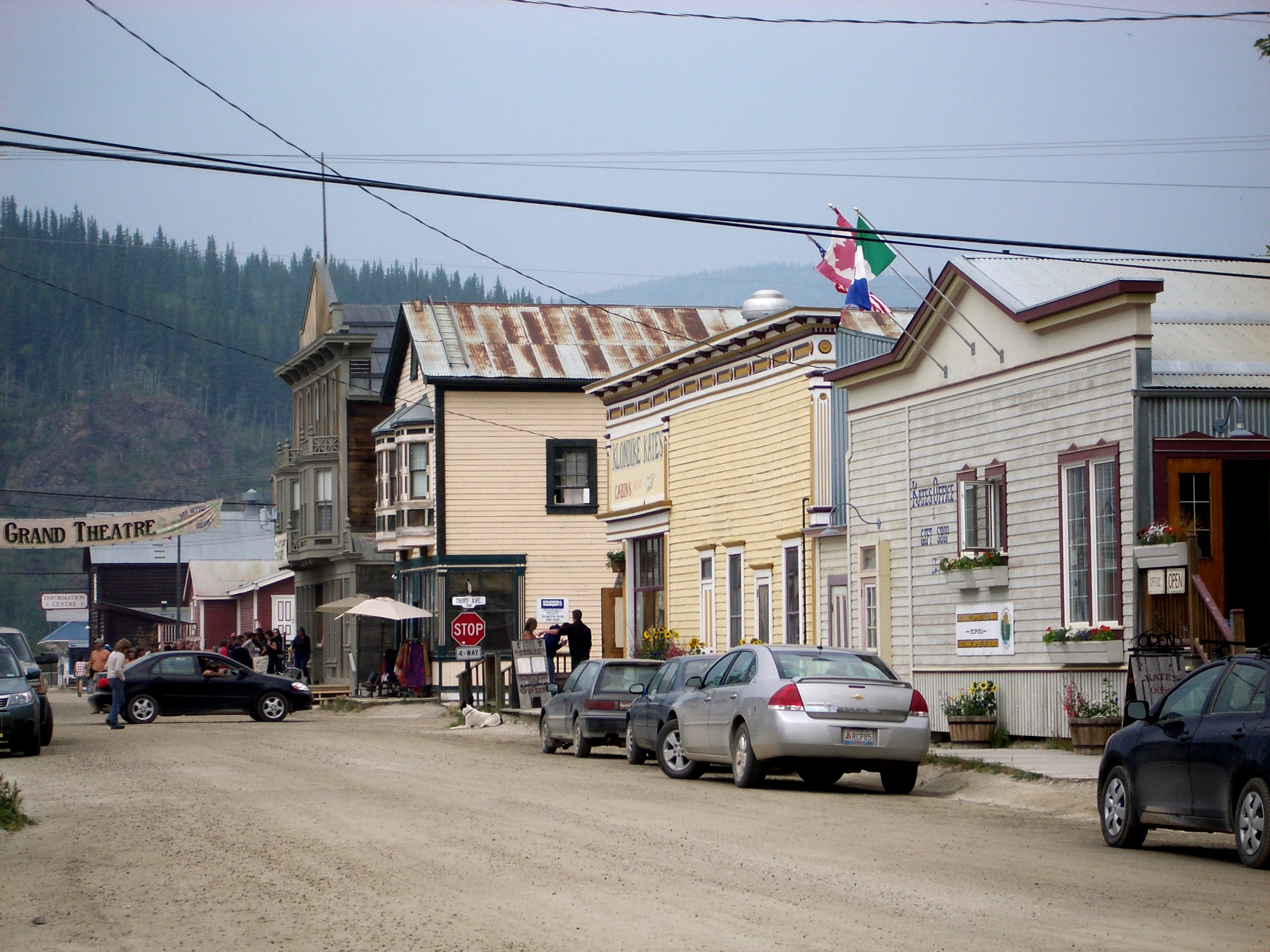 Dawson City (Yukon) to day